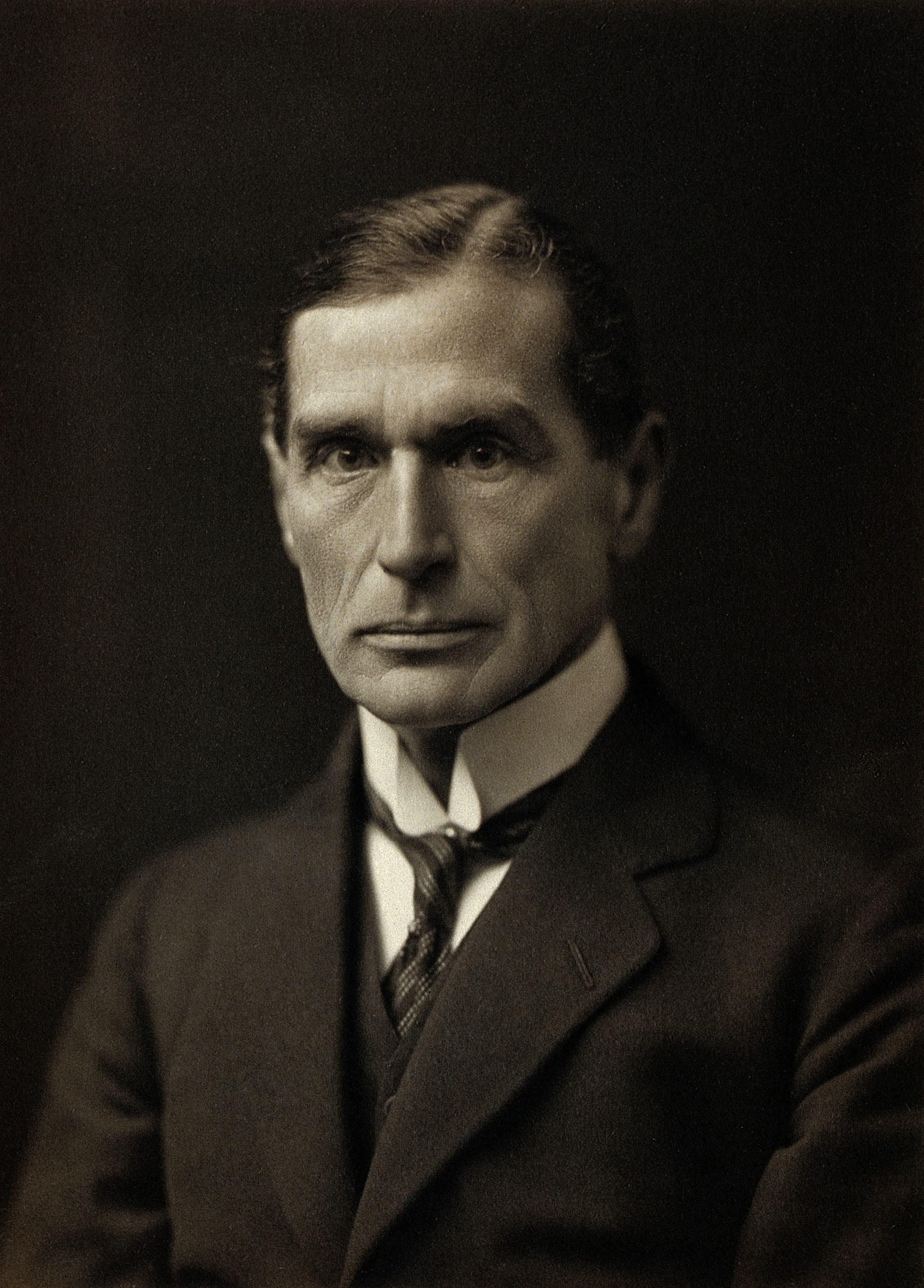 Arthur Henry Cheatle. Photograph by the London Stereoscopic Co. Iconographic Collections Keywords: portrait photographs